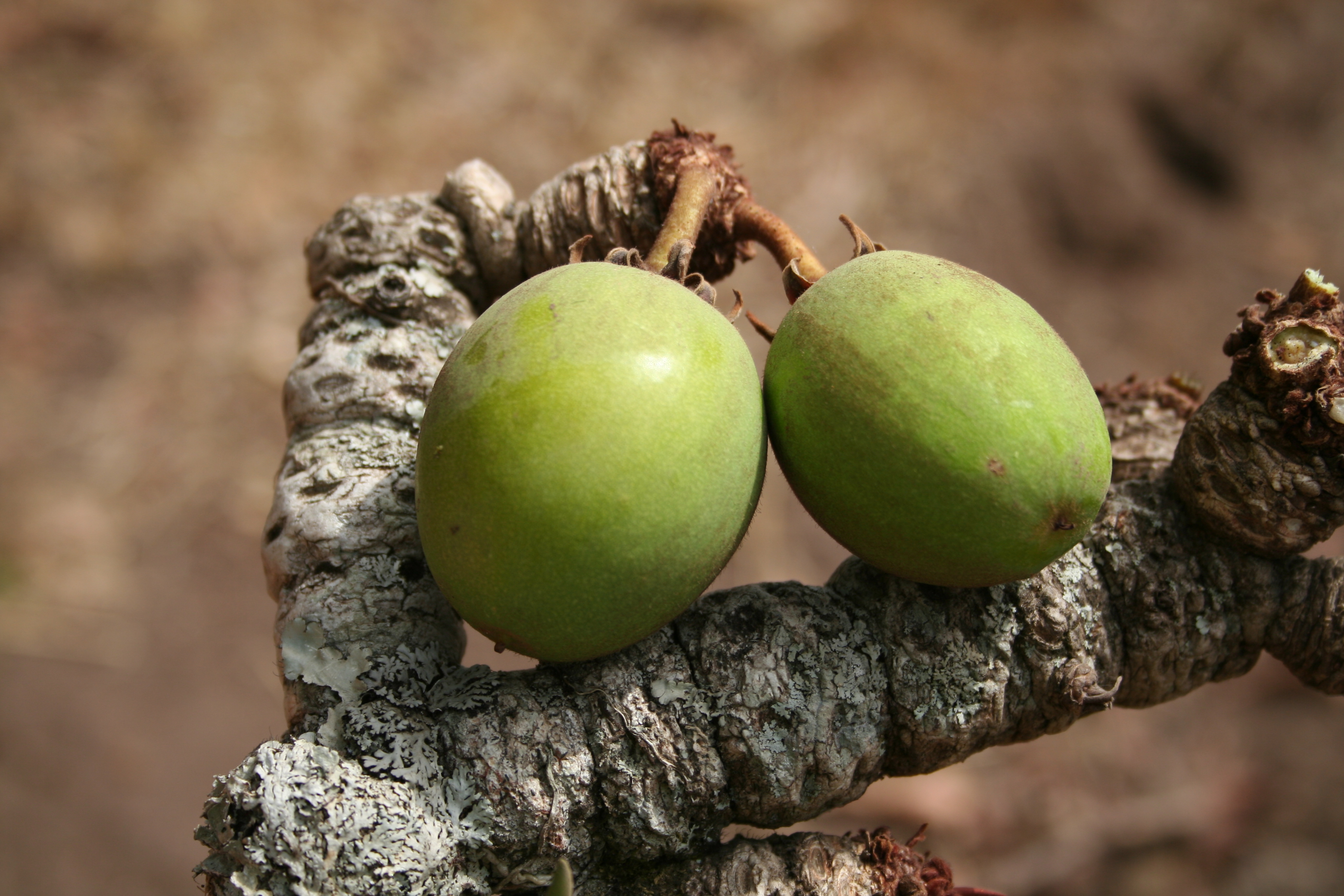 fruits of Vitellaria paradoxa, Shea tree, Mt. Mbati, Cameroon